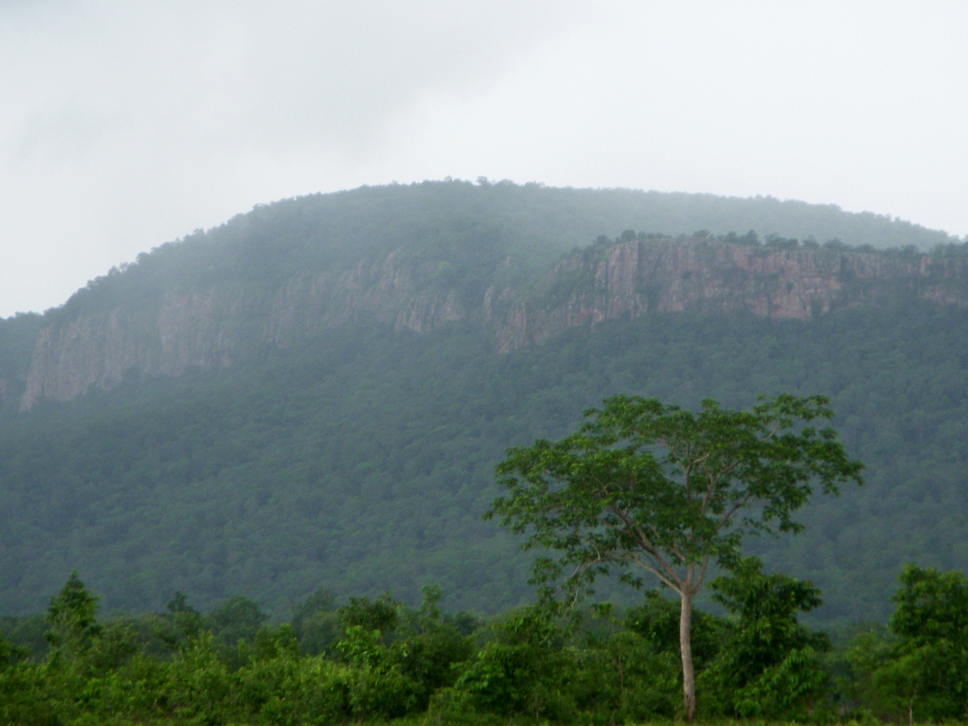 Ratham Hills near Pamulapalli village, Khammam district